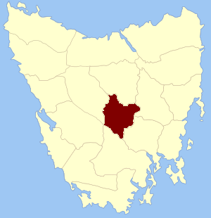 Location of the land district (formerly county) within Tasmania.